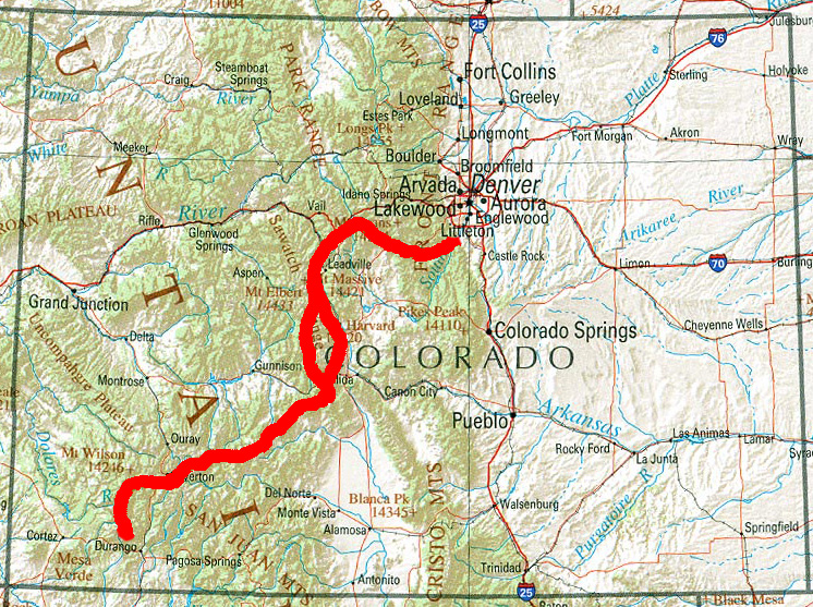 Commons image Colorado ref 2001, cropped slightly and overlaid with my own sketch of the route of the Colorado Trail